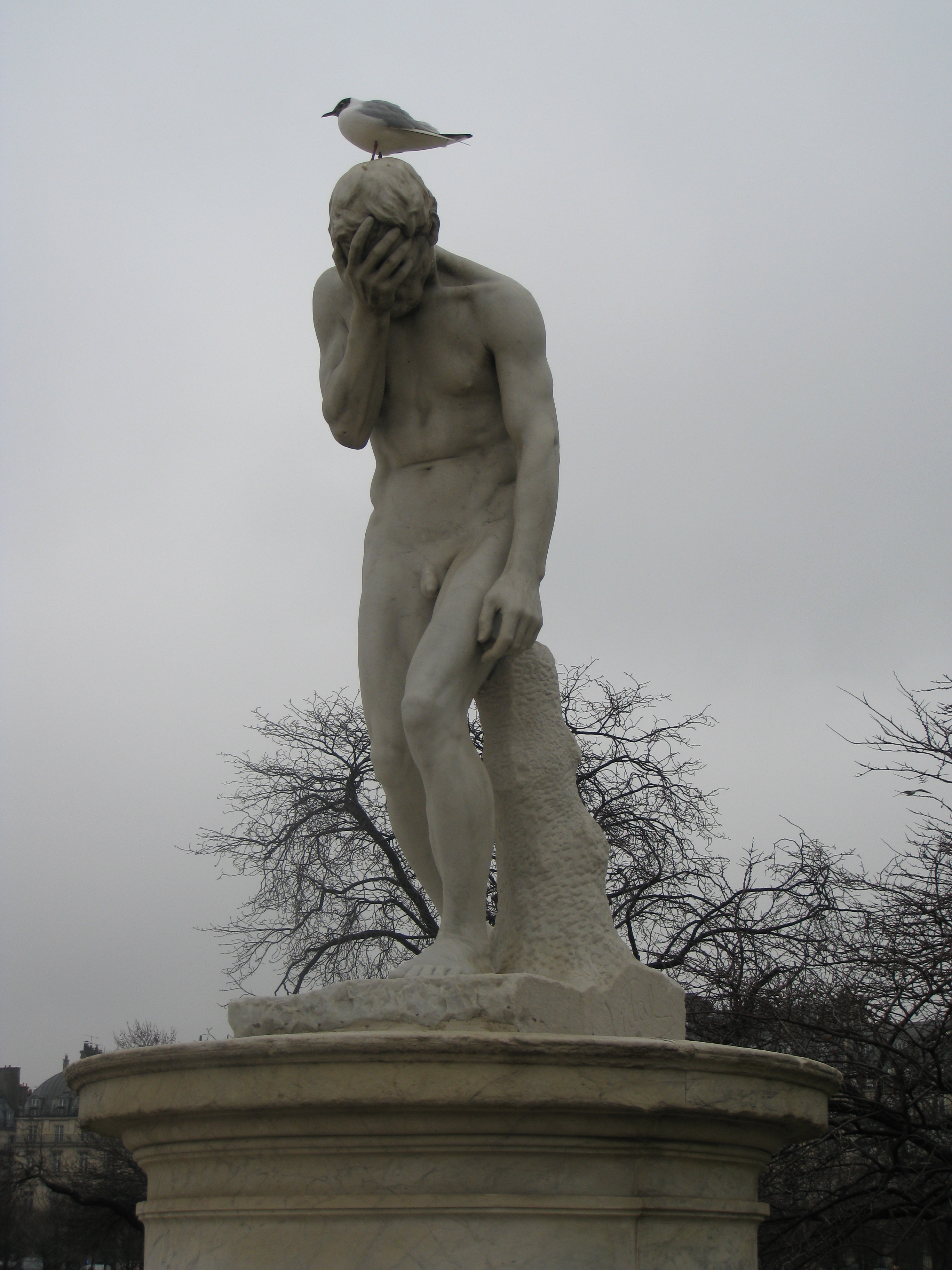 In the rain: Cain by Henri Vidal (1896), in the Tuileries Gardens, Paris; with a Black-headed Gull.